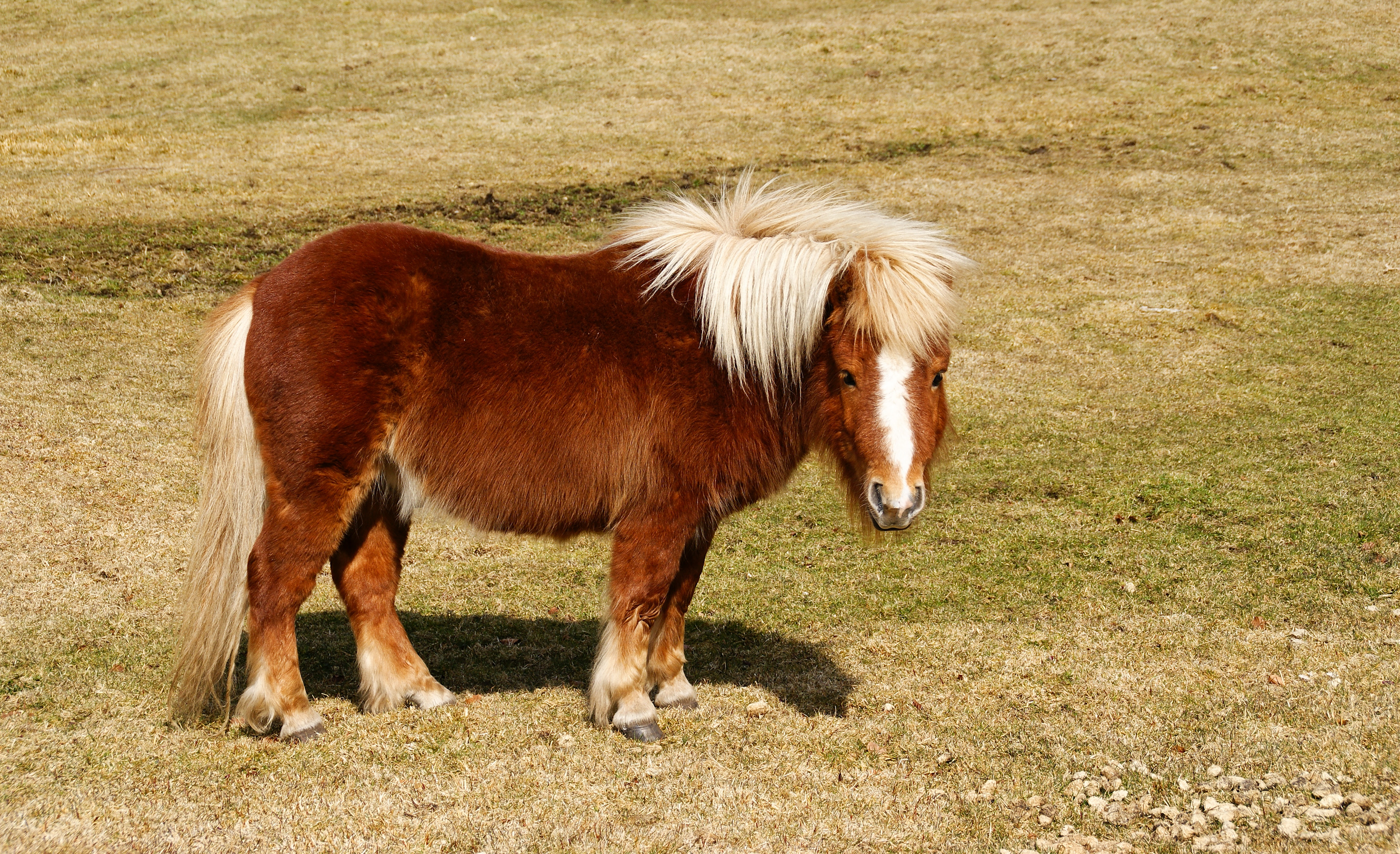 A good quality example of a Shetland Pony in the Dartmoor national park. The area is well known for these animals, but be careful all ponies, like this one, aren't Dartmoor ponies